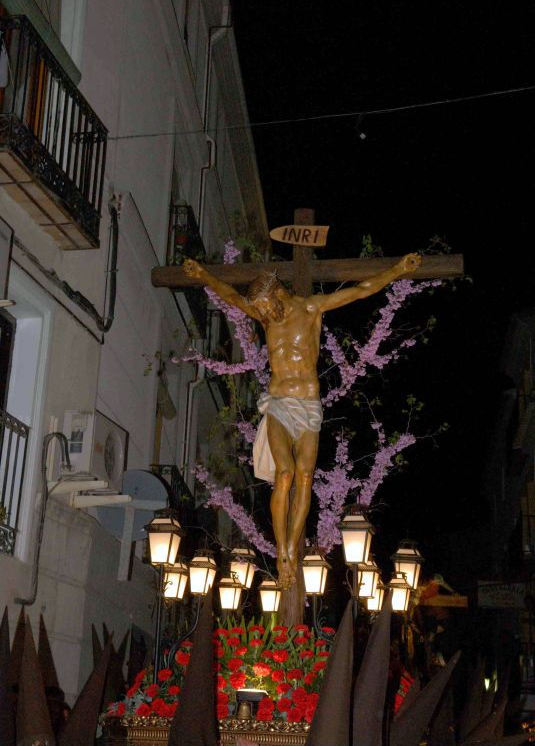 El Crucificado.